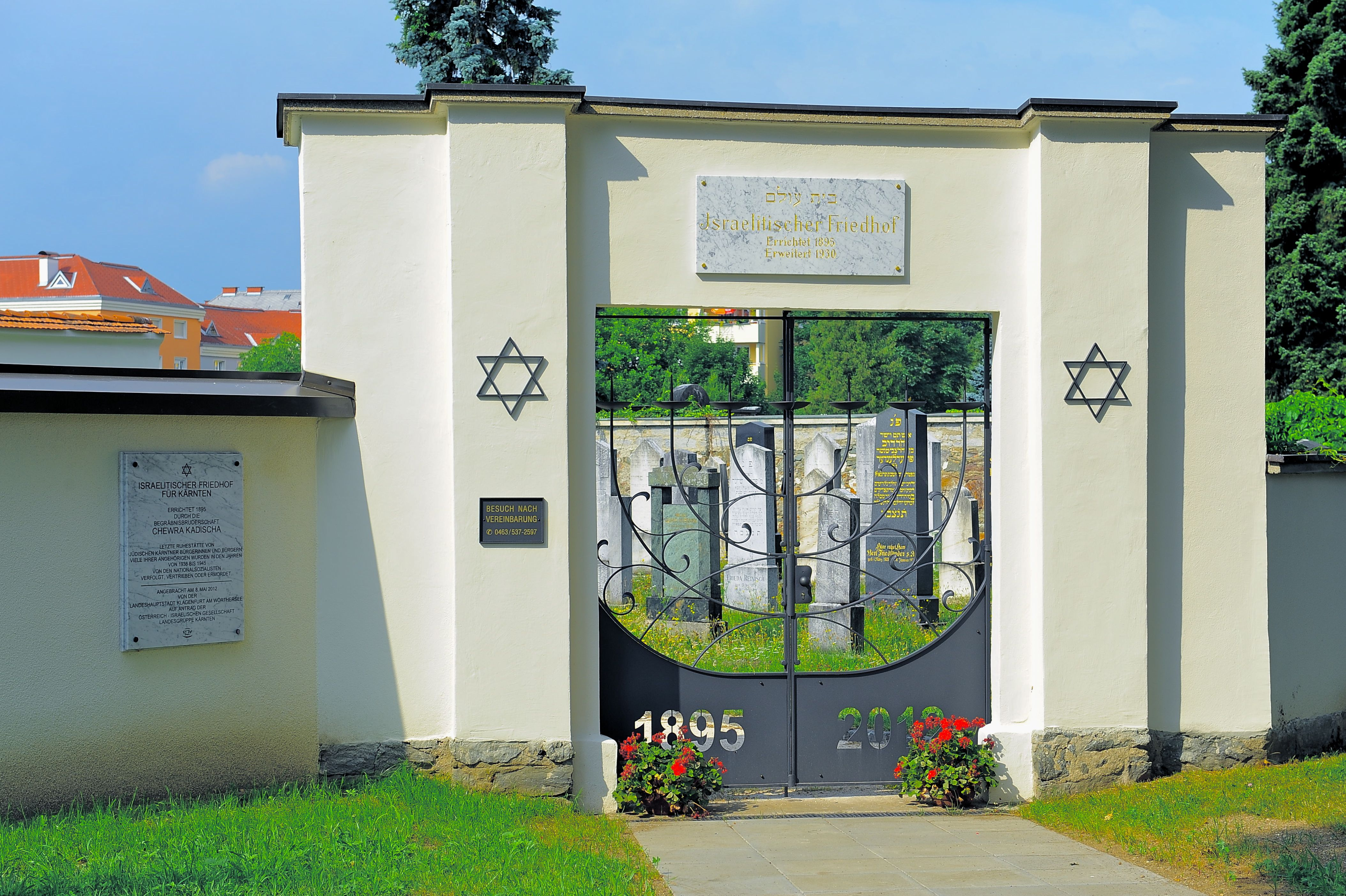 Entrance to the Israelitic cemetery, Heizhausgasse, 11th district “Sankt Ruprecht” of Klagenfurt, Carinthia, Austria